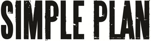 Simple Plan official logo